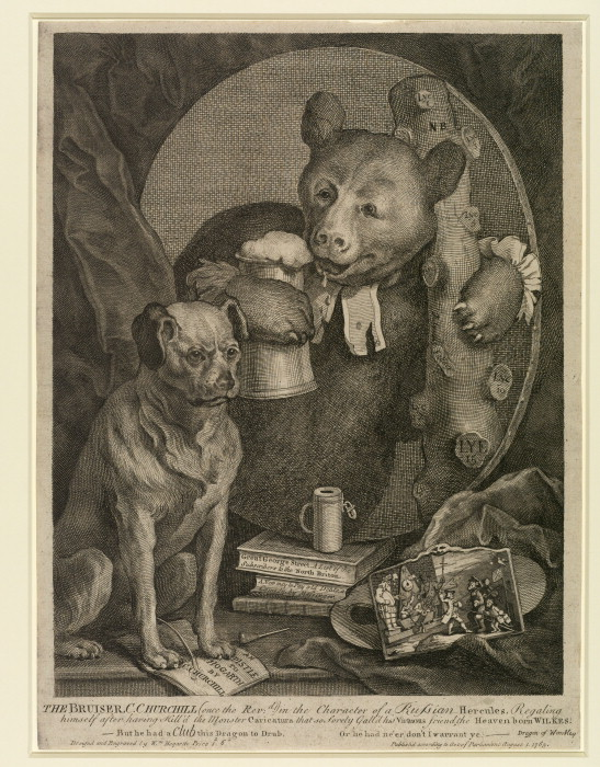 The Bruiser, Engraving and etching Height: 37.4 cm (cut); Width: 27.8 cm (cut) A cartoon created in opposition to poet Charles Churchill after Churchill had attacked Hogarth for a cartoon directed against Churchill's friend, John Wilkes According to the Art and Architecture Web site: "Printed, lower margin, recto, THE BRUISER, C. CHURCHILL (once the Rev d!) In the Character of a Russian Hercules, Regaling // himself after having Kill'd the Monster Caricaturea that so sorely Gall'd his Virtuous friend of the Heaven born WILKES! // But he had a Club this Dragon to Drub, O'er he had ne'er don't I warrant ye - Dragon of Wantley // Designed and Engraved by Wm Hogarth Price 1s 6d n Publish'd according to act of Parliament August 1.1763."